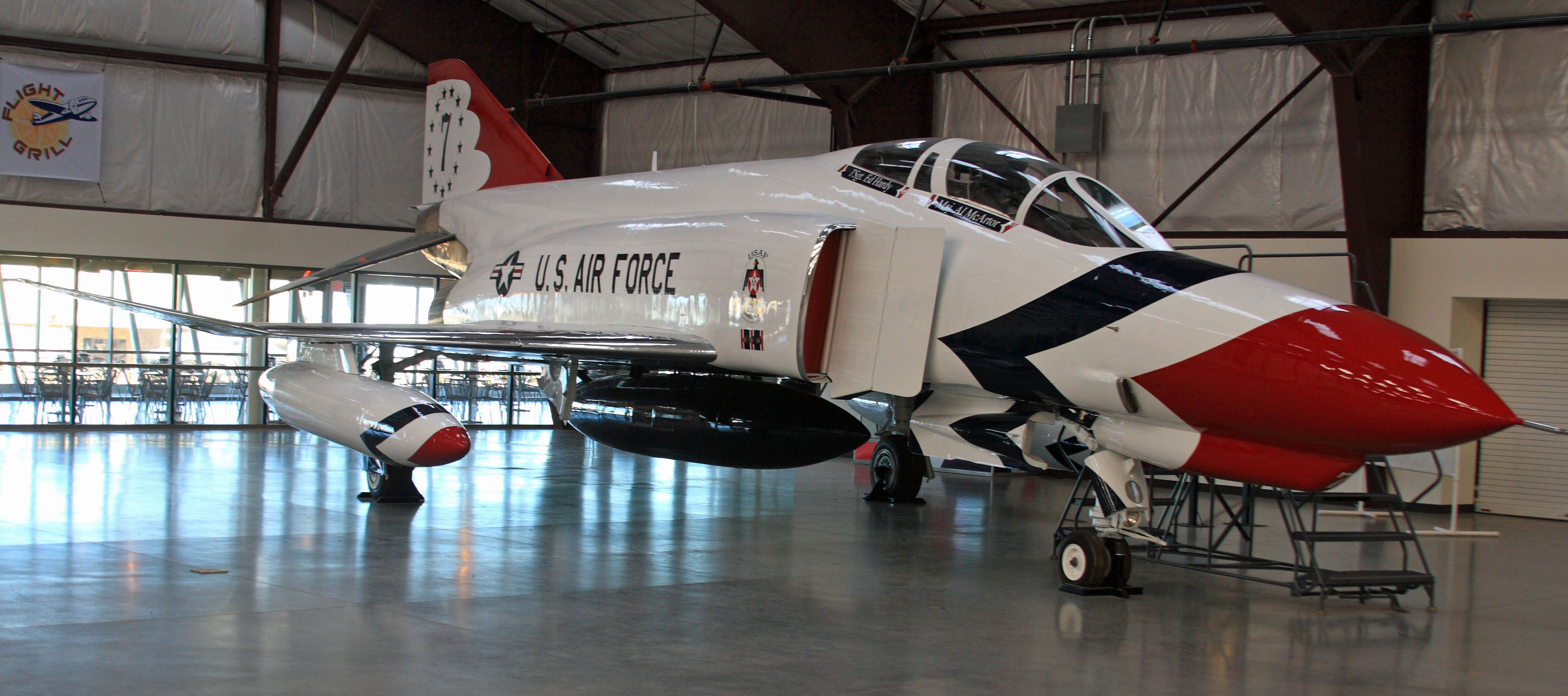 I had a chance to visit this great aviation and space museum in February 2011. This place is huge and it has a very extensive collection of airplanes - this is probably the largest collection I've ever seen in one place. Planes are stored in several hangers and also on a huge apron. If you are in the Tucson area and have any interest in aviation this is a must see stop!